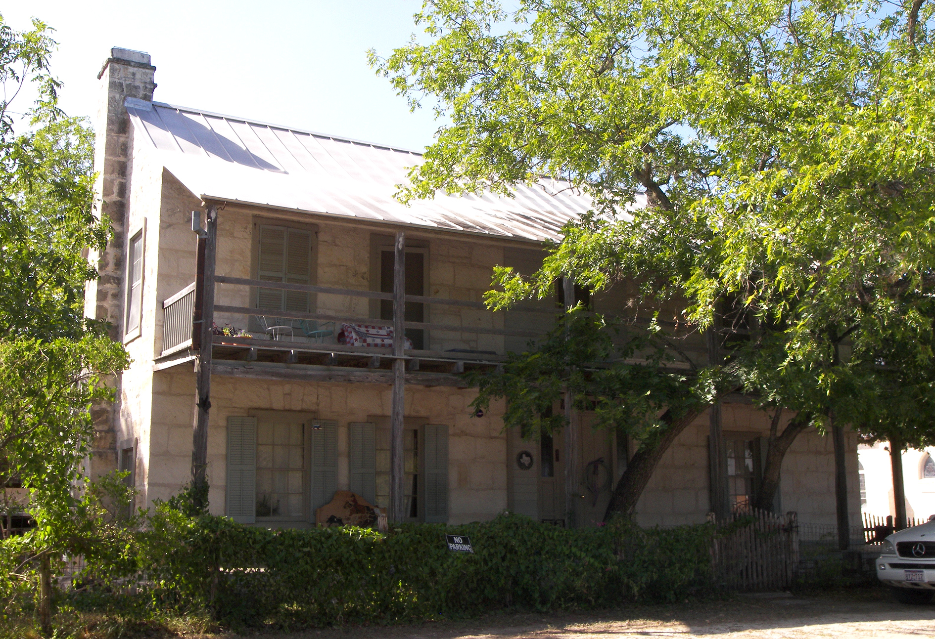 The Jureczki House located in Bandera, Texas, United States. The house was designated a Recorded Texas Historic Landmark in 1964 and listed on the National Register of Historic Places on January 11, 1980.